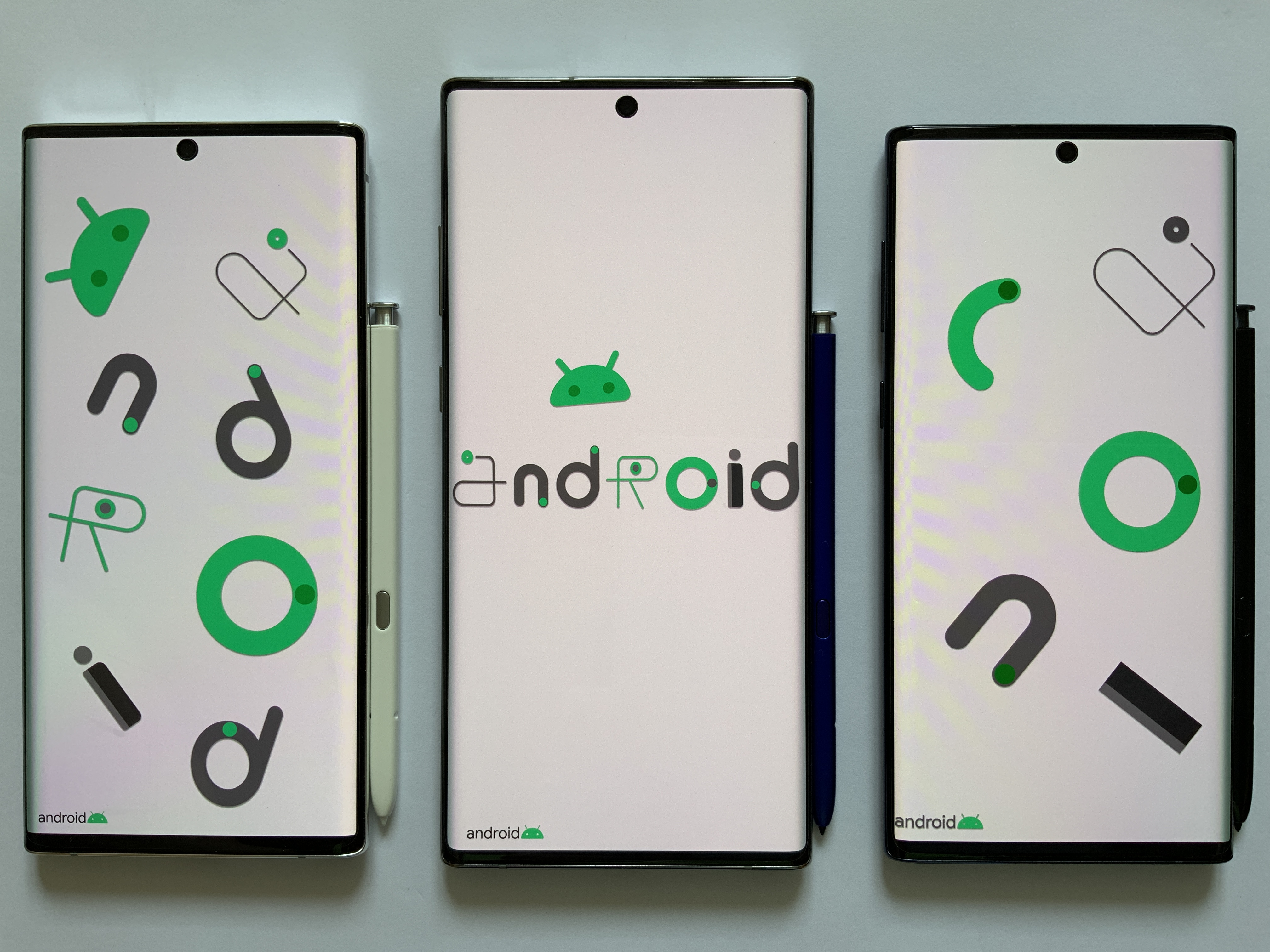 SAMSUNG Galaxy Note10 SAMSUNG Galaxy Note10 5G SAMSUNG Galaxy Note10+ SAMSUNG Galaxy Note10+ 5G